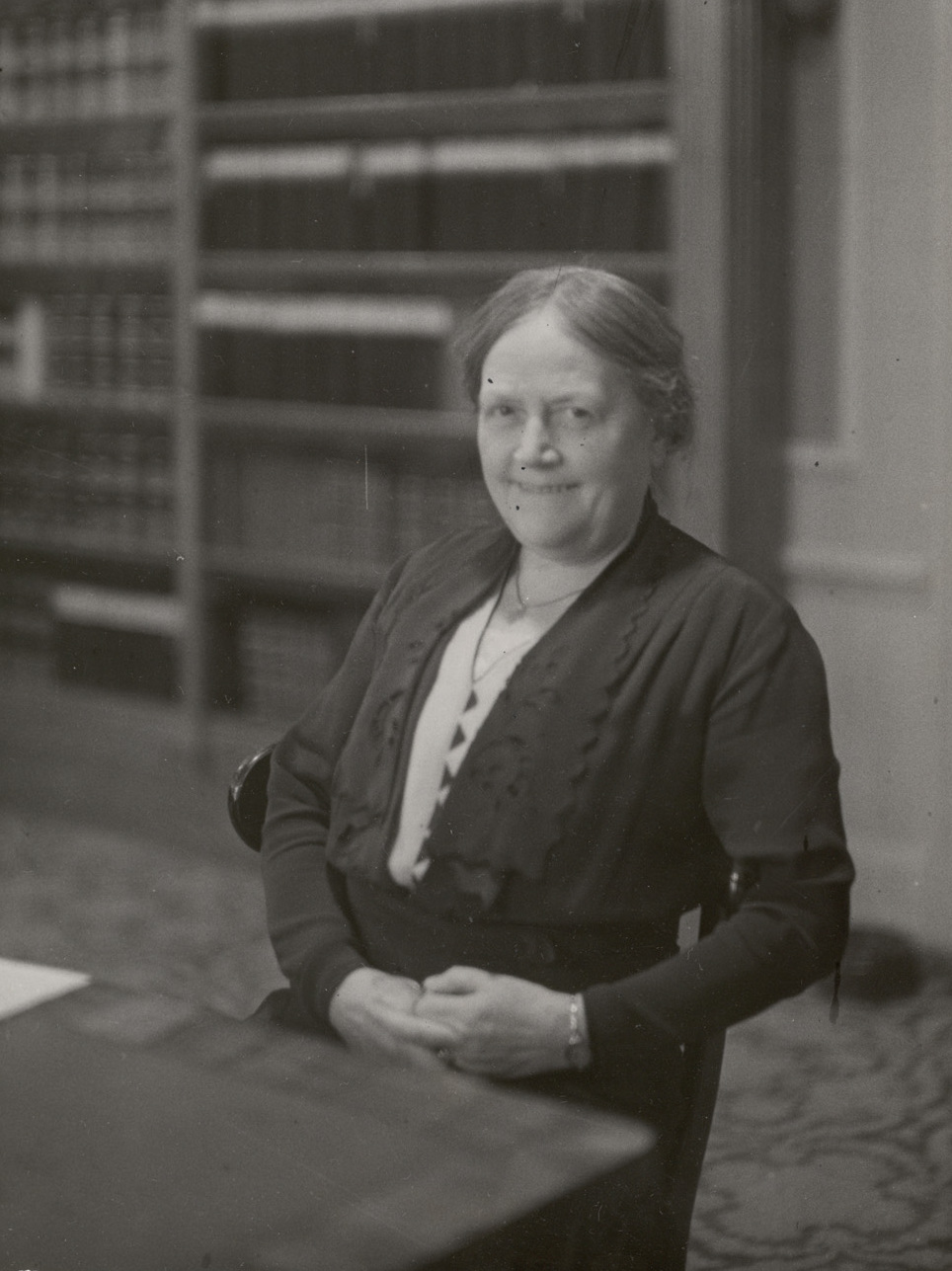 Gerda Mundt (1874-1956). Det Konservative Folkeparti / The Conservatives. Folketinget 1932-45.